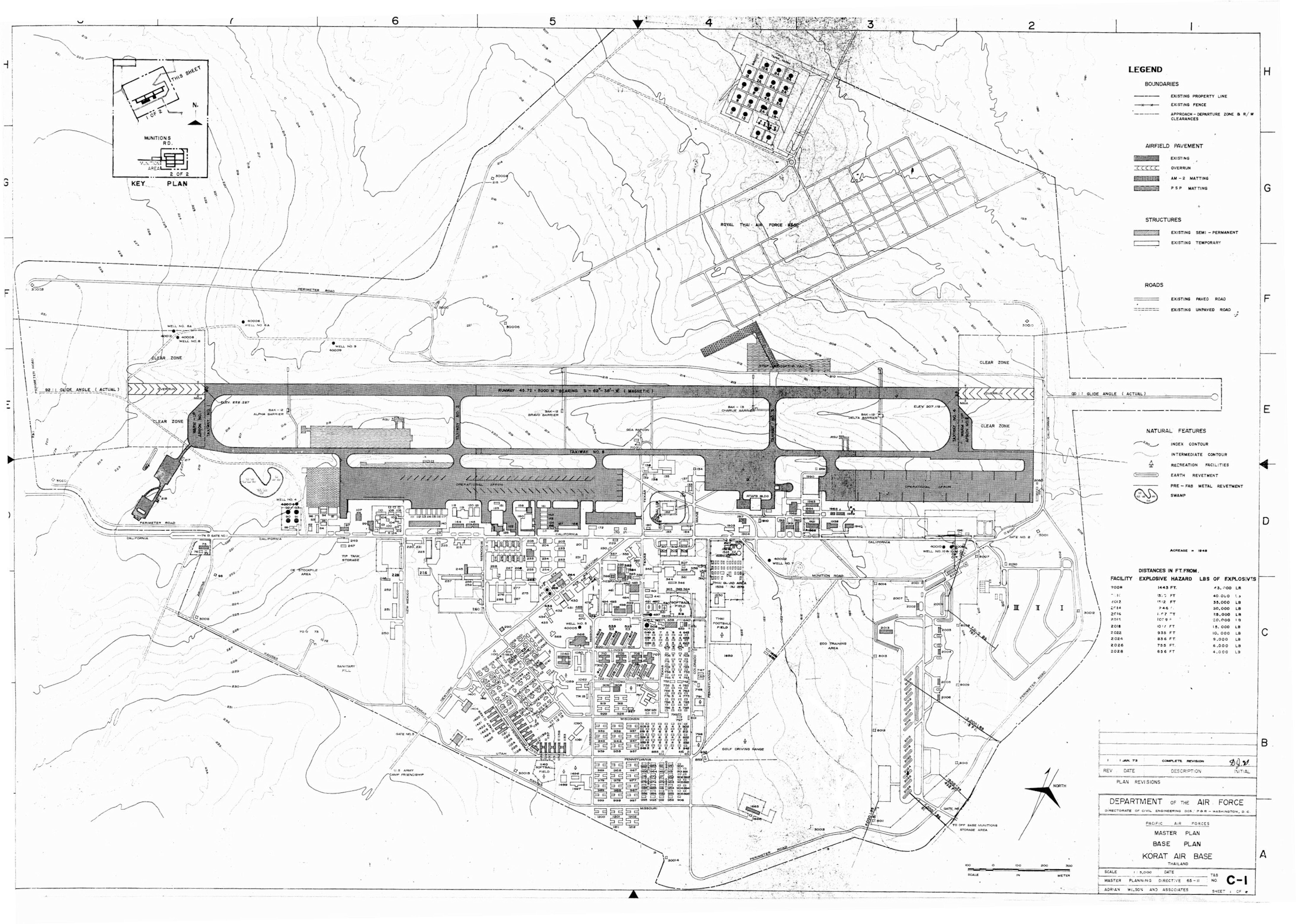 Map of Korat RTAFB, made by base Civil Engineering